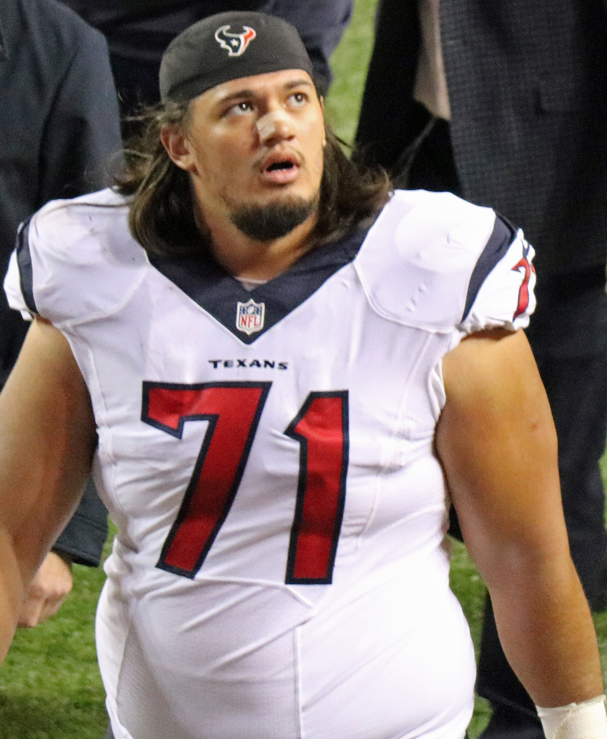 Xavier Su'a-Filo, a player on the National Football League.